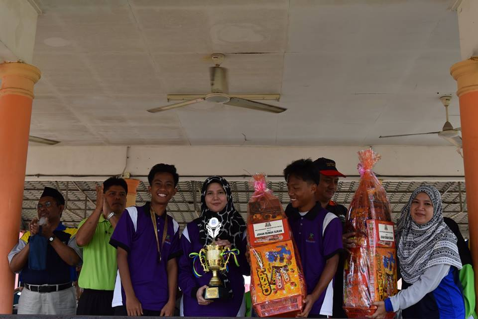 Johan Acara Merentas Desa - Rumah Sultan Iskandar Shah